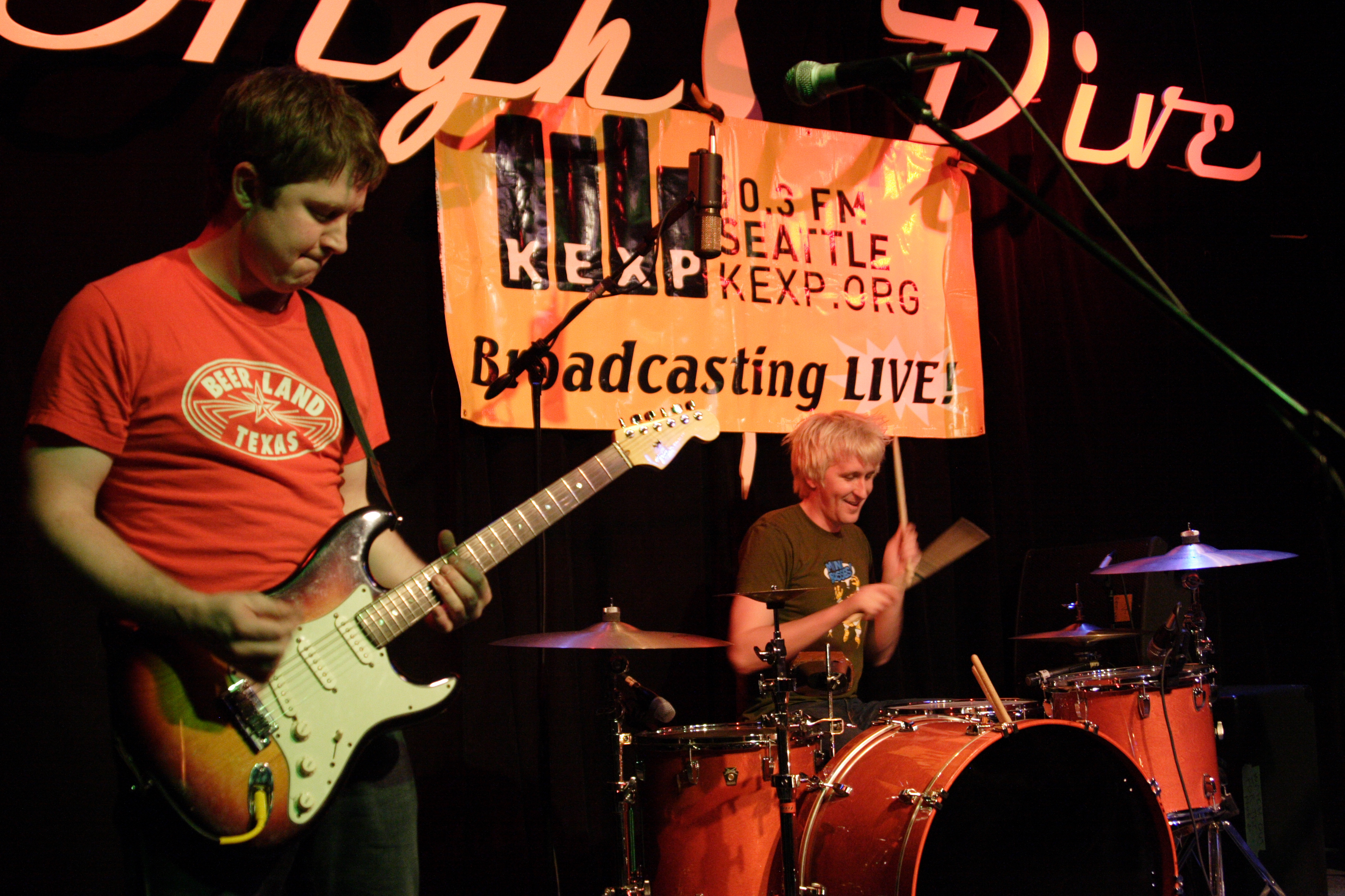 Optimus Rhyme Optimus Rhyme performing for KEXP Audioasis Live at the High Dive, Seattle.